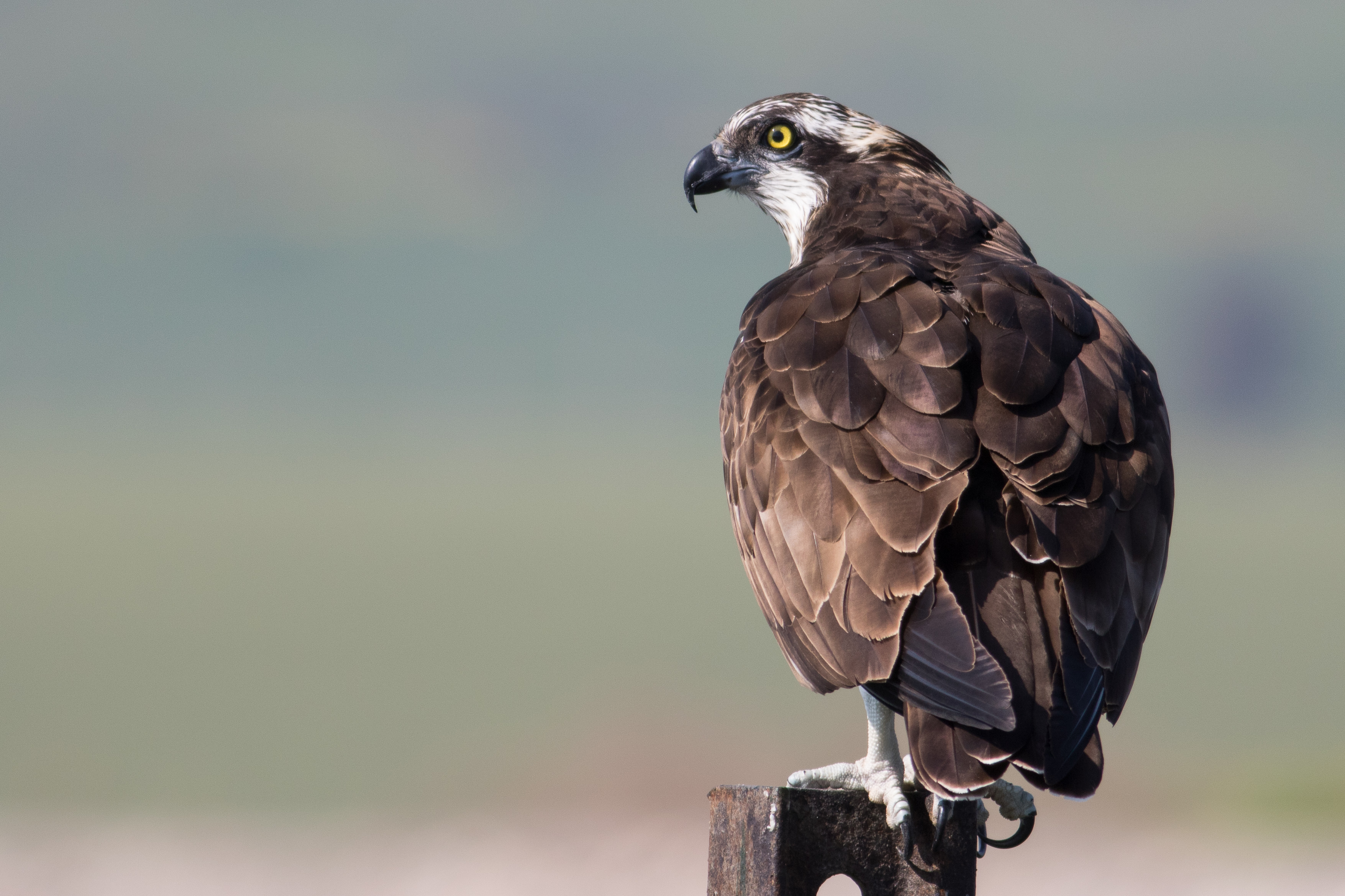 Osprey, Valley of Springs Region, Israel.